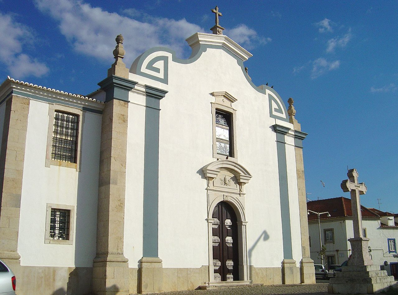 See where this picture was taken. [?]